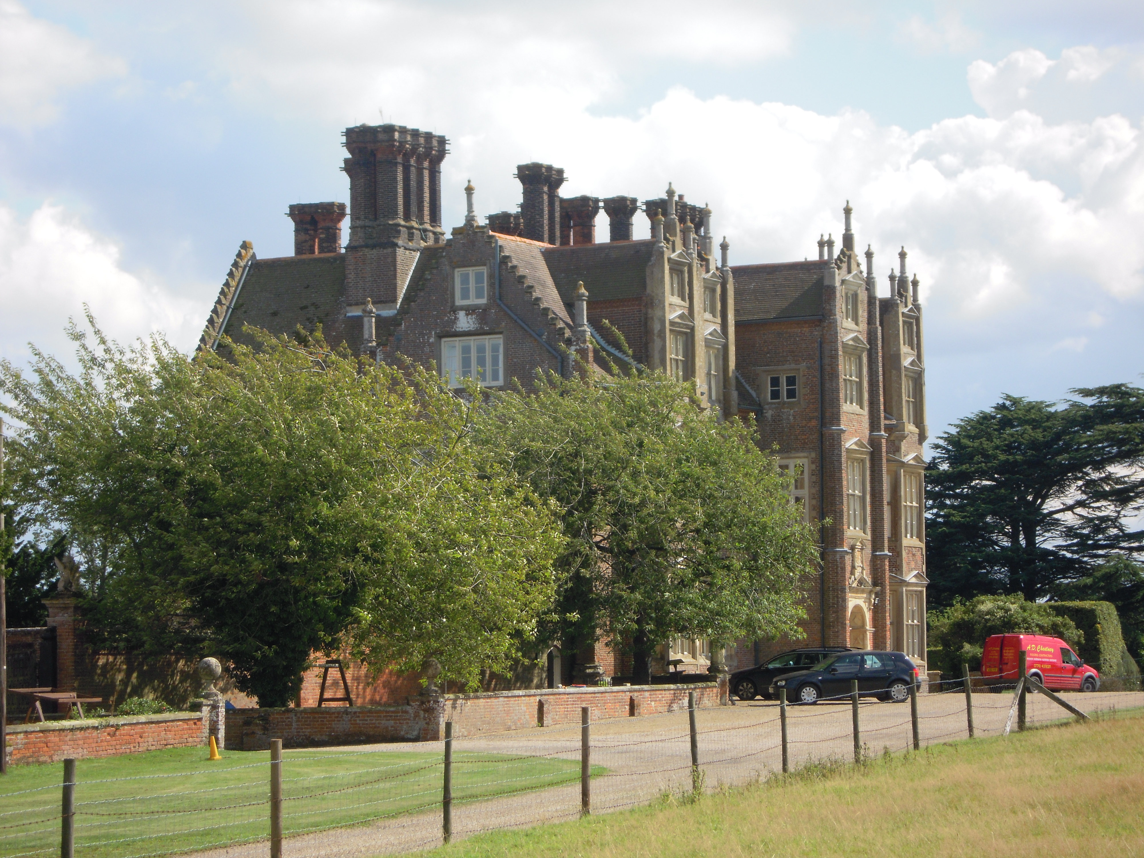 The west elevation of Barningham Hall, Norfolk.